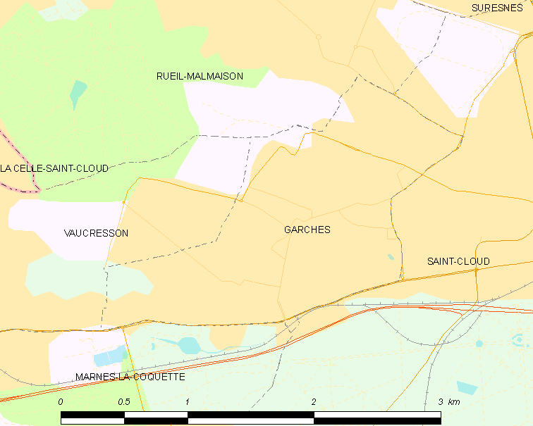 Map of French municipality Garches